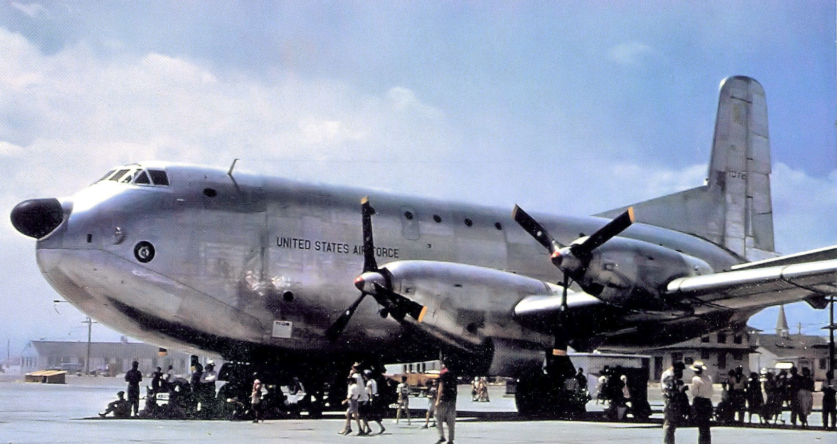 Experimental Douglas YC-124 Globemaster II 1954